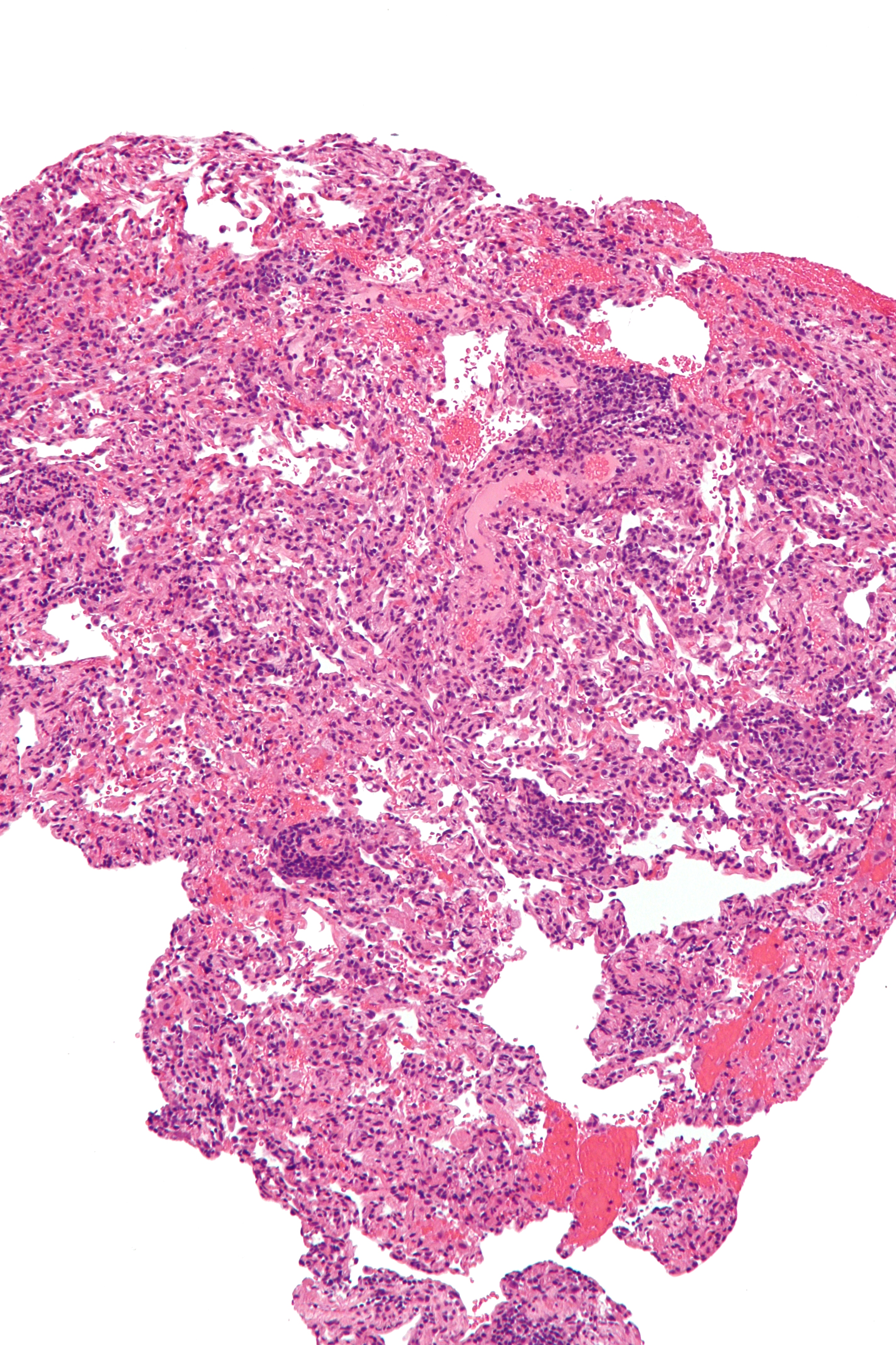 Intermediate magnification micrograph of lung transplant rejection. Lung biopsy. H&E stain. Features: Perivascular lymphocytic infiltrate. +/- Macrophages, eosinophils. +/- Neutrophils. Related images High mag. Very high mag.